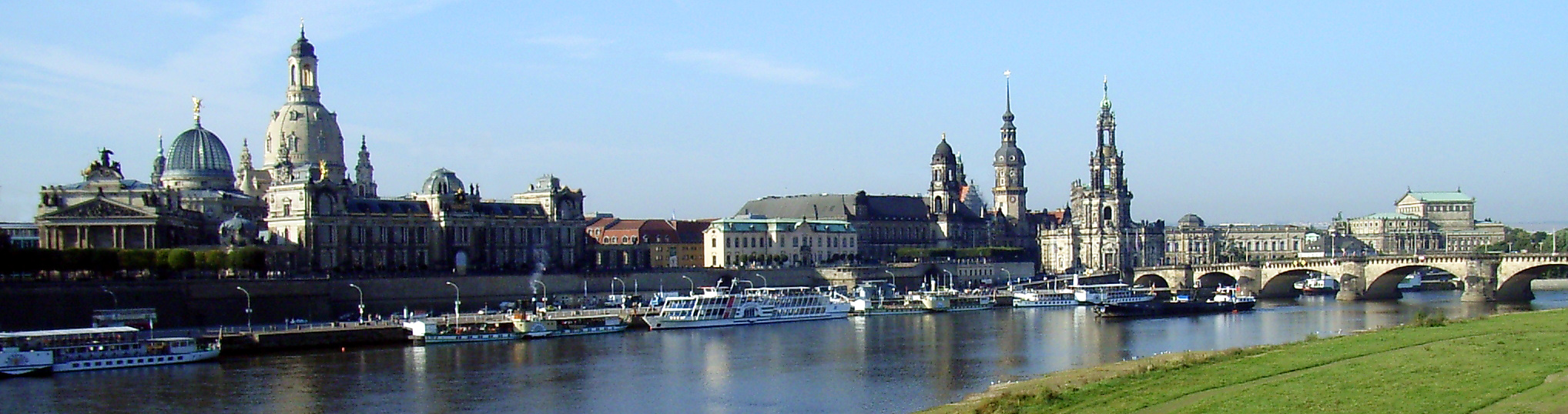 Dresden (Saxony, Germany), view from Carola Bridge (over the Elbe river) in southwest direction. On the extreme right: Augustus Bridge and Semperoper (opera house). Highest building in the left half: dome of the Frauenkirche. Image taken 2005-09-21, cropped digital photography.